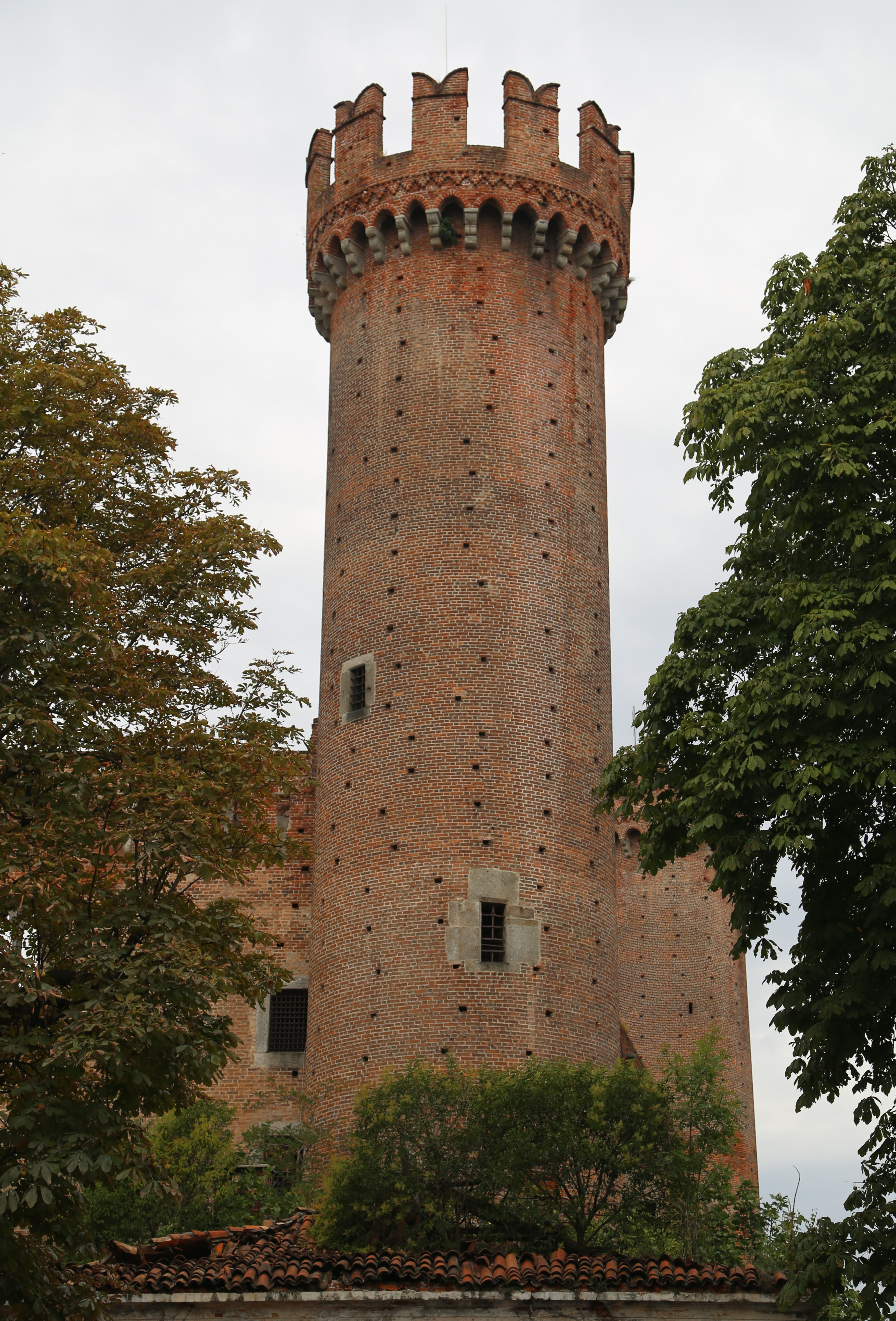 Castello di Ivrea, Piemont